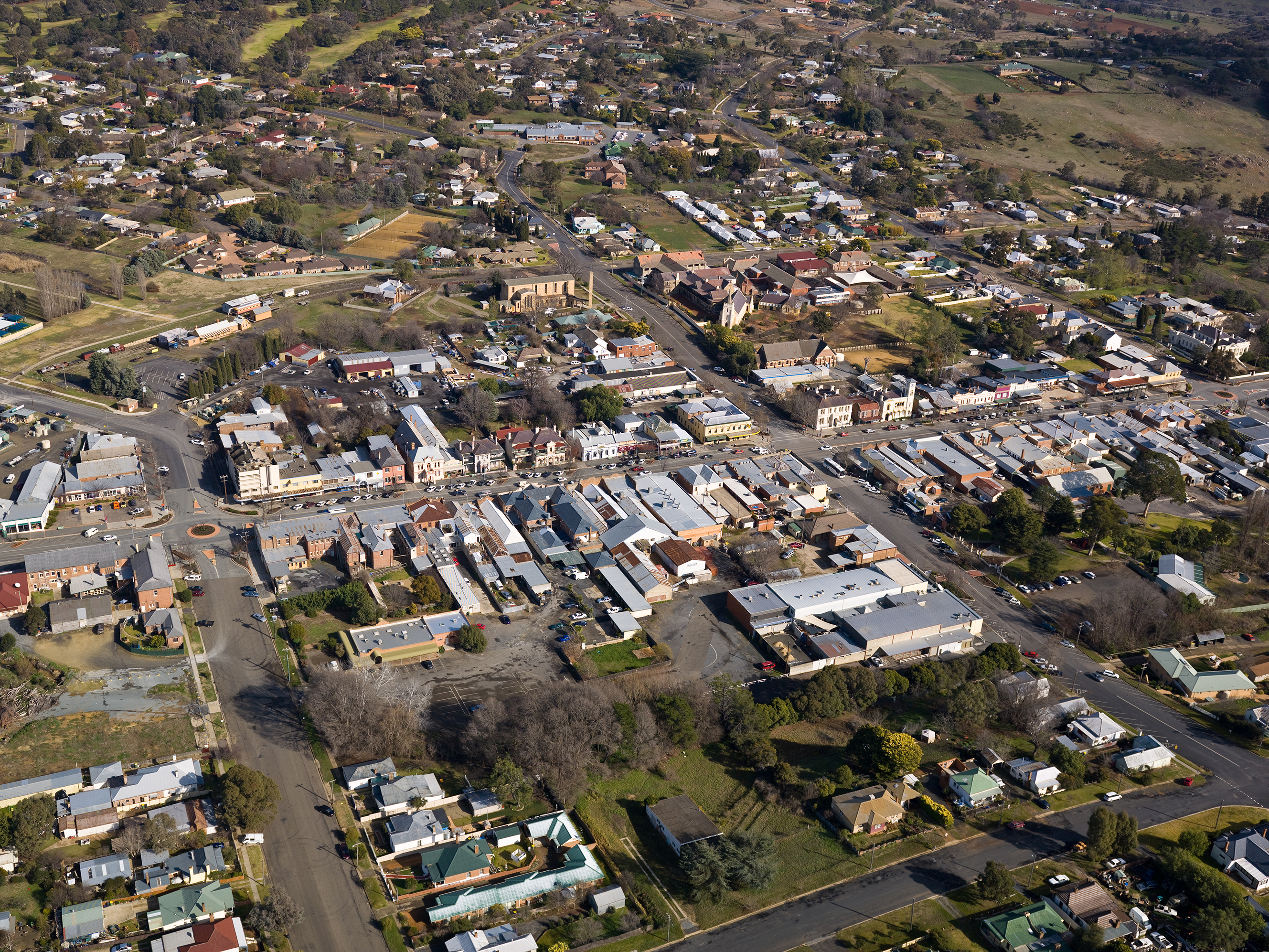 Aerial photo of the town centre of Yass, NSW